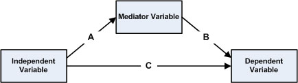 This image depicts a statistical mediation relationship.